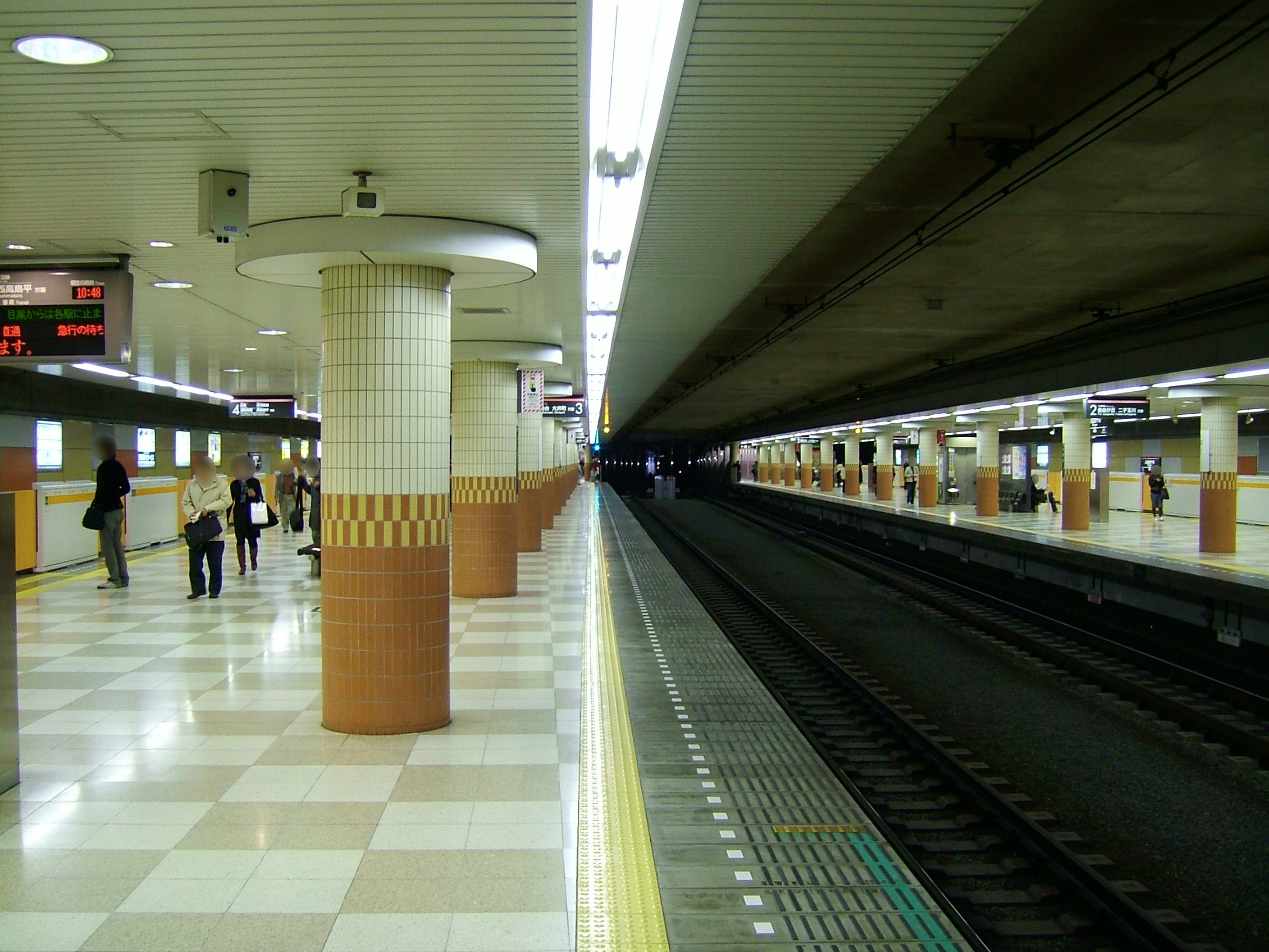 The platforms of Ookayama Station